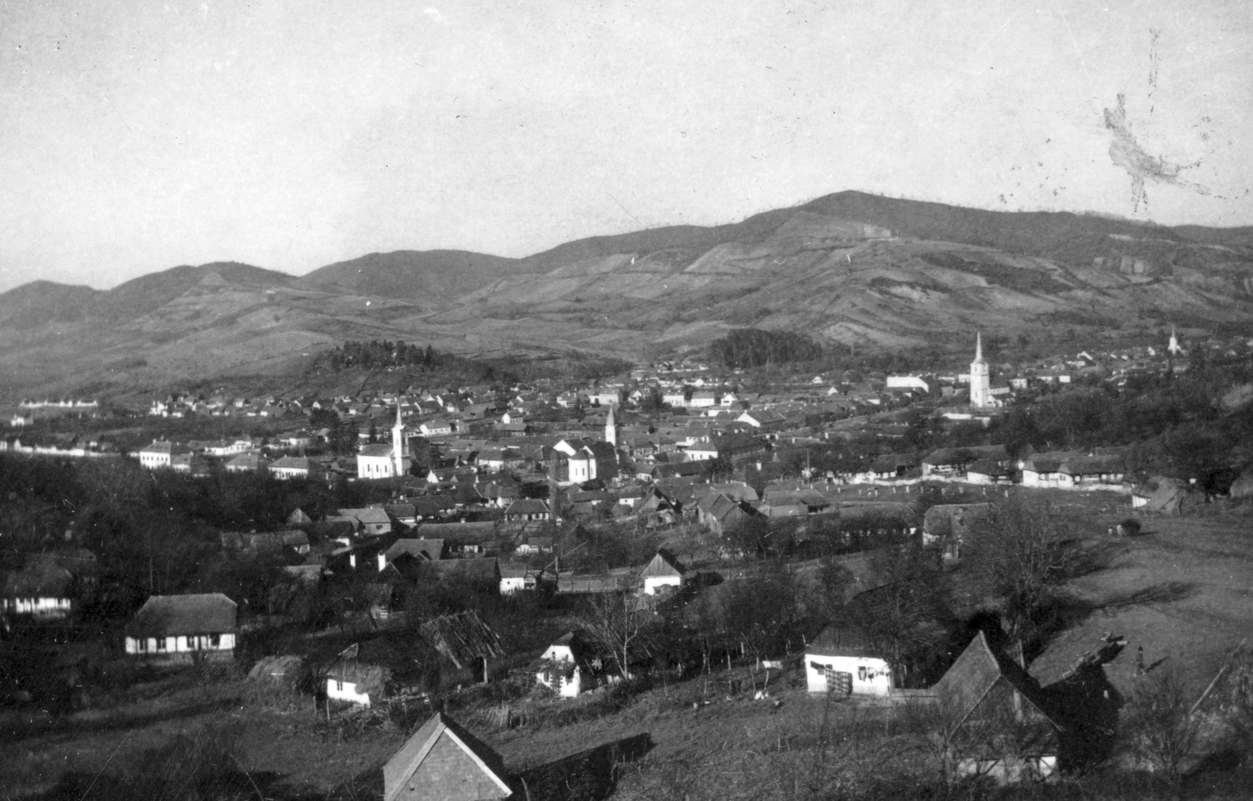 view on Tekendorf/Teke/Teaca from the SE, 1920